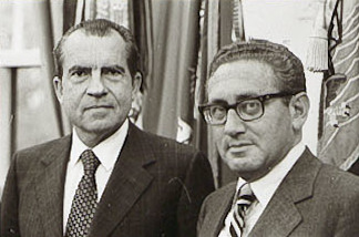 ● Frame(s): WHPO-8390-, President Nixon and Henry Kissinger. 2/8/1972, Washington, D.C., Oval Office White House. President Nixon, Kissinger